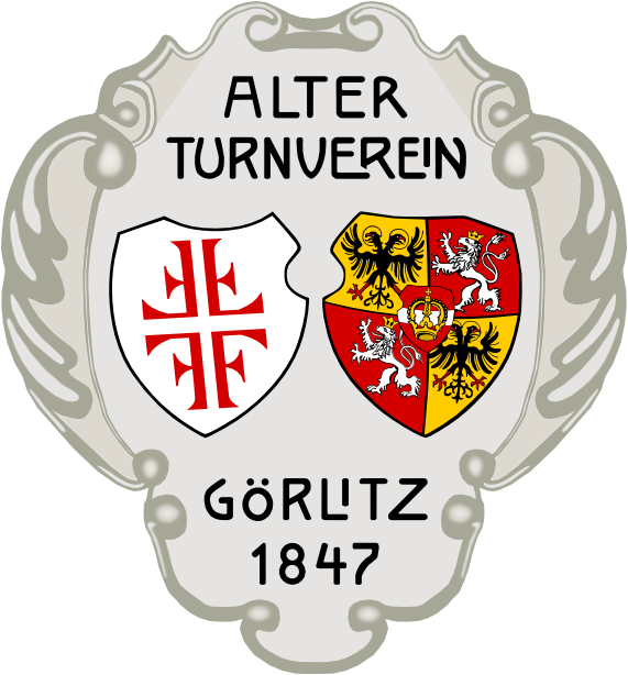 Logo of ATV 1847 Görlitz. German football team.